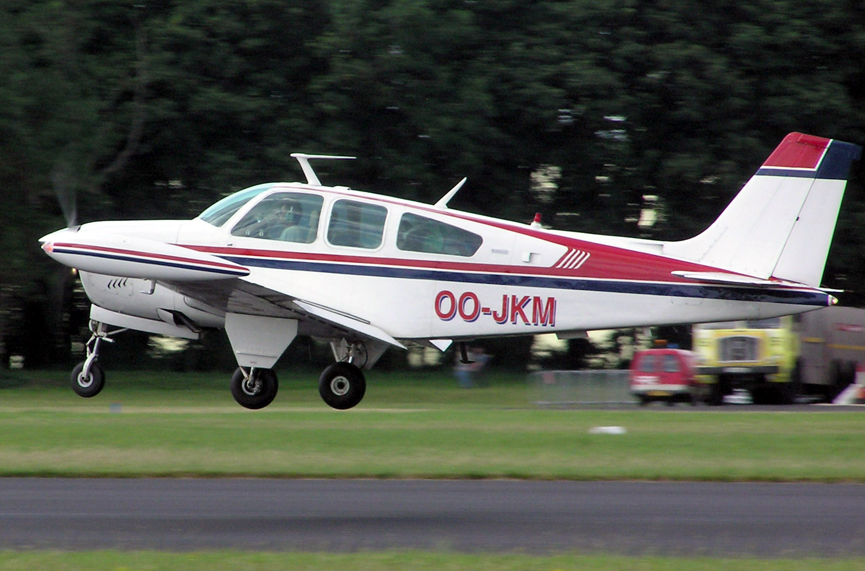 Beechcraft Bonanza Be33 (Belgian registration OO-JKM) taking off at Kemble Airfield, Gloucestershire, England. Note that some sources say Be33 and some say F33 for this aircraft. Photographed by Adrian Pingstone in July 2005 and released to the public domain. It is a 1974-built Beech F33A Bonanza serial number CE-487 (Be33 is just a general abbreviation for the Model33 and BE33 is the ICAO code for the type). This aircraft crashed into trees near Hasselt in Belgium on February 12th, 2018. The 2 occupants died.